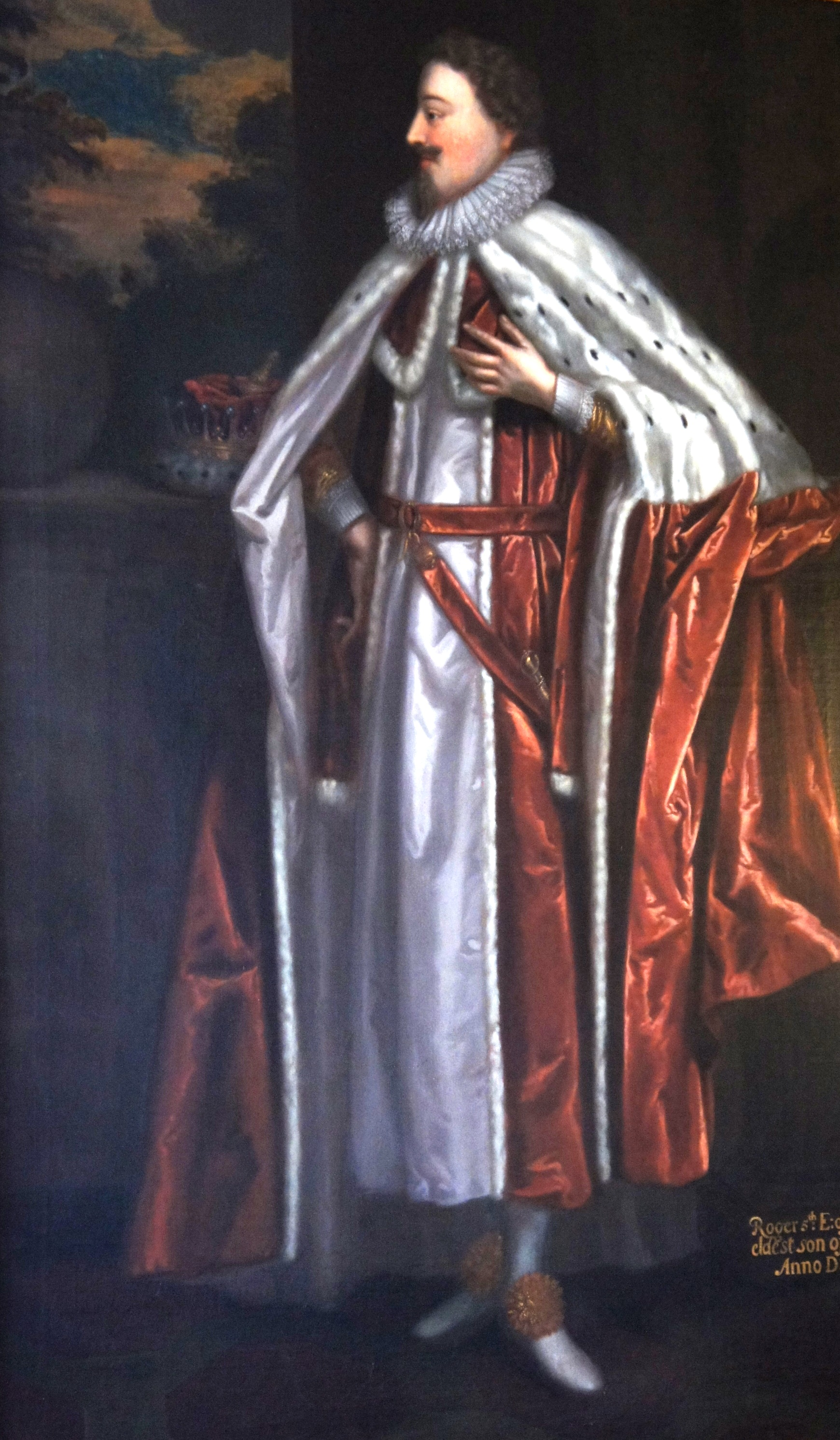 The picture of Roger Manners 5th Earl of Rutland in the Belvoir Castle